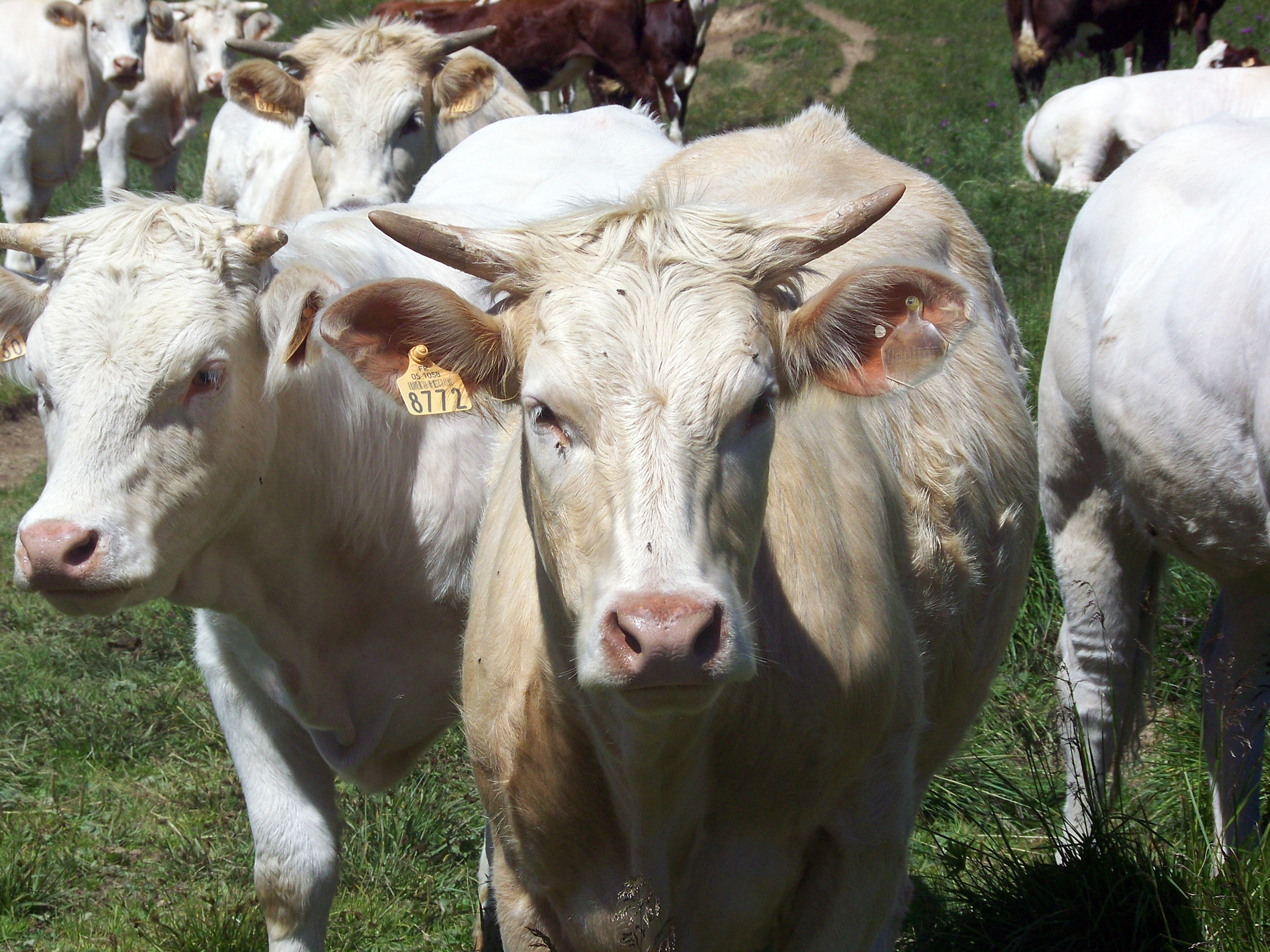 Cows on the Emparis plateau (French Alps).